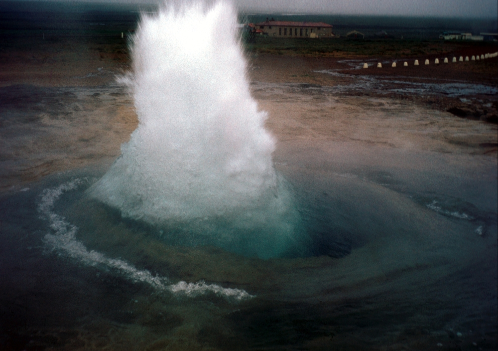 Geysir in Iceland on 25 Jul 1972. Picture taken and uploaded by Roger McLassus. other version